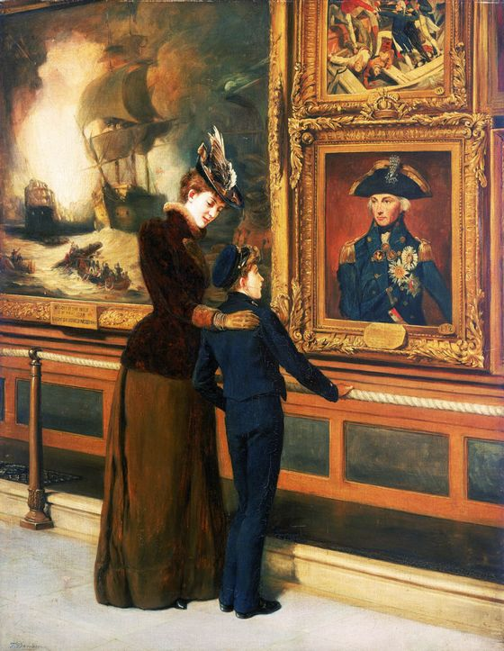 'England's Pride and Glory', oil on canvas by Thomas Davidson. A young naval cadet and his mother view Lemuel Abbott's portrait of Nelson at the Naval Gallery in the Painted Hall of Greenwich Hospital. Also in the picture are two other works about the life of Nelson, George Arnald's 'Victory of the Nile, 1 August 1798', and Richard Westall's 'Nelson in Conflict with a Spanish Launch, July 1797'